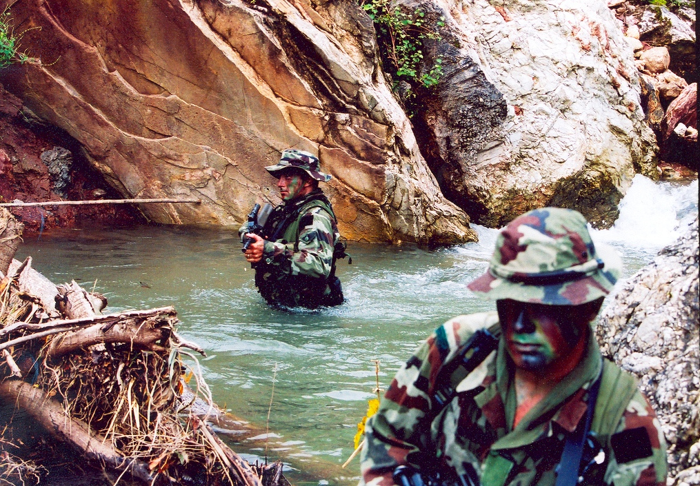 Irish Army Ranger Wing (ARW) patrol in East Timor part of the International Force for East Timor (INTERFET) from October 1999 then United Nations Transitional Administration in East Timor (UNTAET) to June 2000